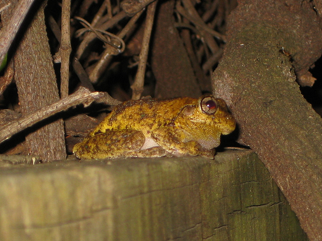 Litoria jervisiensis This guy was watching us at a party near the Lake Parramatta Reserve. Our best guess on the night from what an iPhone could tell us was a Jervis Bay Tree Frog... There's no privacy for native animals when there's a number of former biology students around. :)